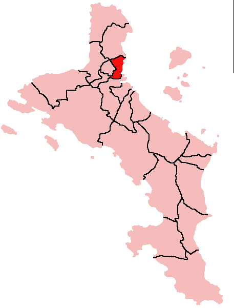 Map of Mahe Island, Seychelles showing English River District; created with the GIMP. Made by User:Acntx.